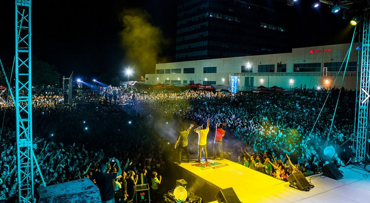 Raza for Christ in Managua